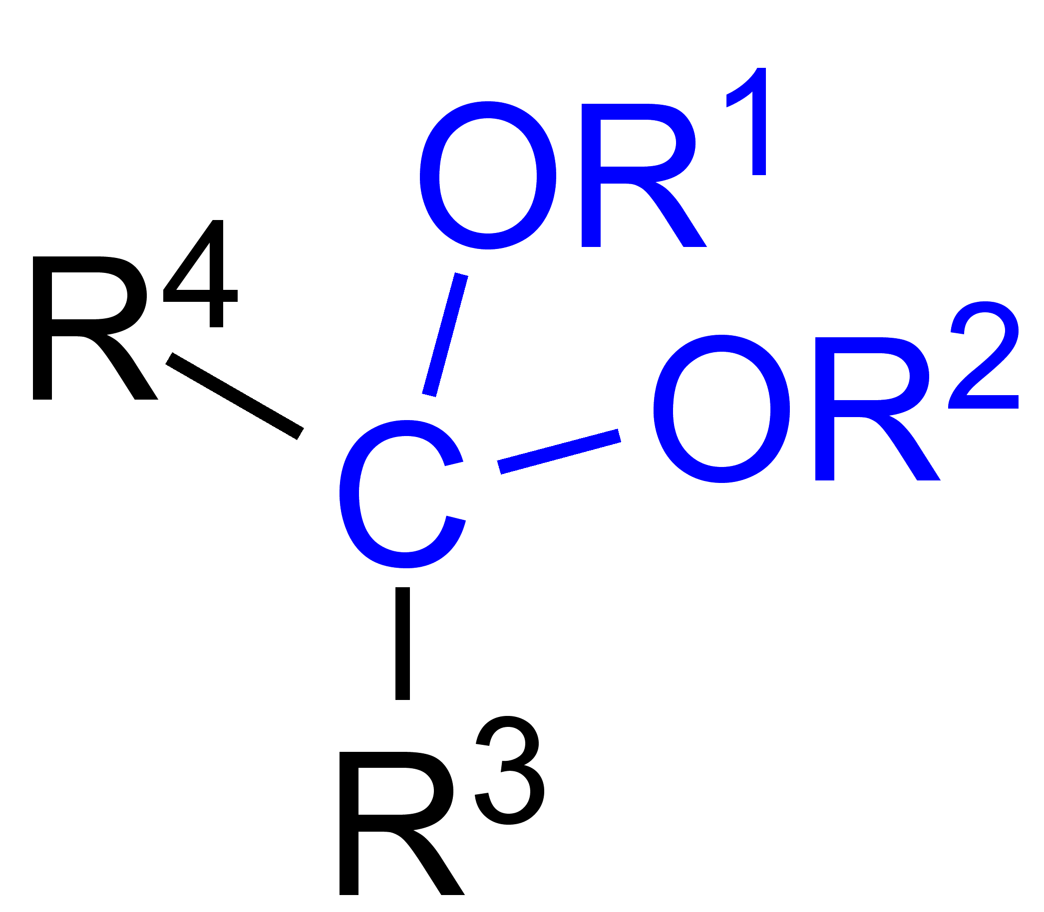 Ketal_Structural_Formulae